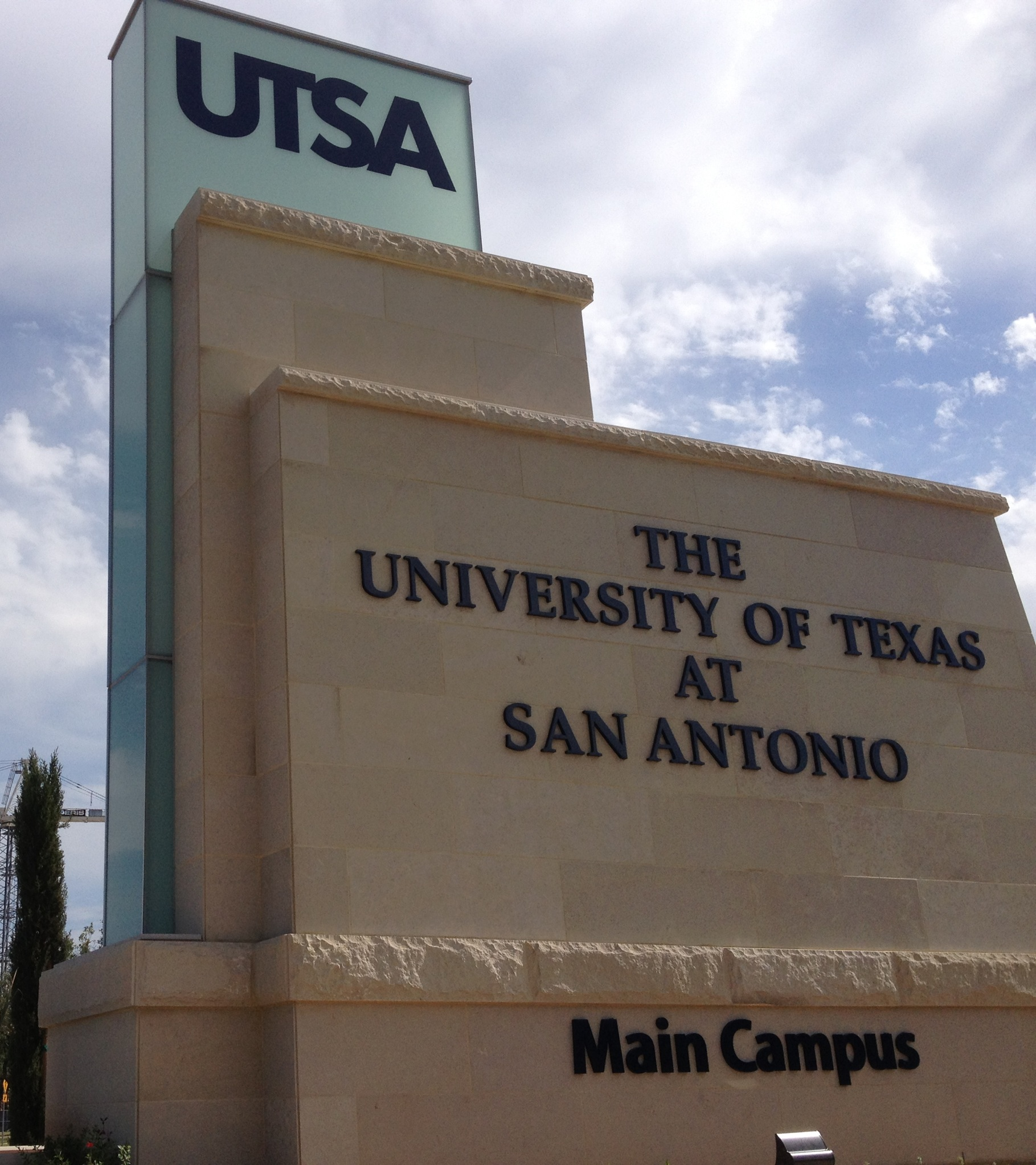 Main entrance sign to the University of Texas at San Antonio, facing north